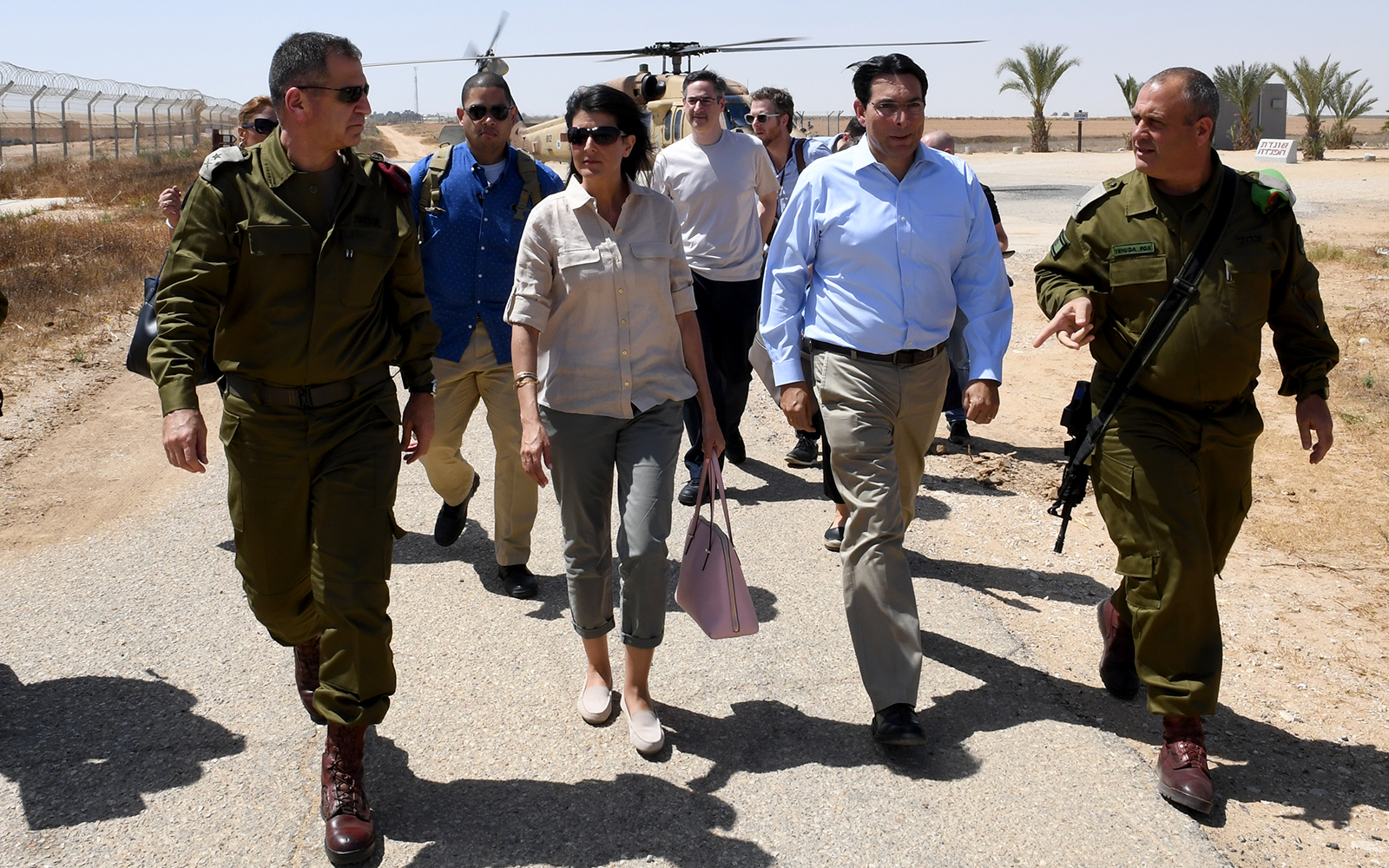 US Ambassador to the UN Nikki Haley receives briefings from Deputy Chief of Staff MG Aviv Kochavi, BG Yehuda Fuchs of Gaza Division, UN Special Coordinator for Middle East Peace Process Nikolai Mladenov, and USAID Deputy Mission Director Jonathan Kamin during a visit to Kerem Shalom crossing.